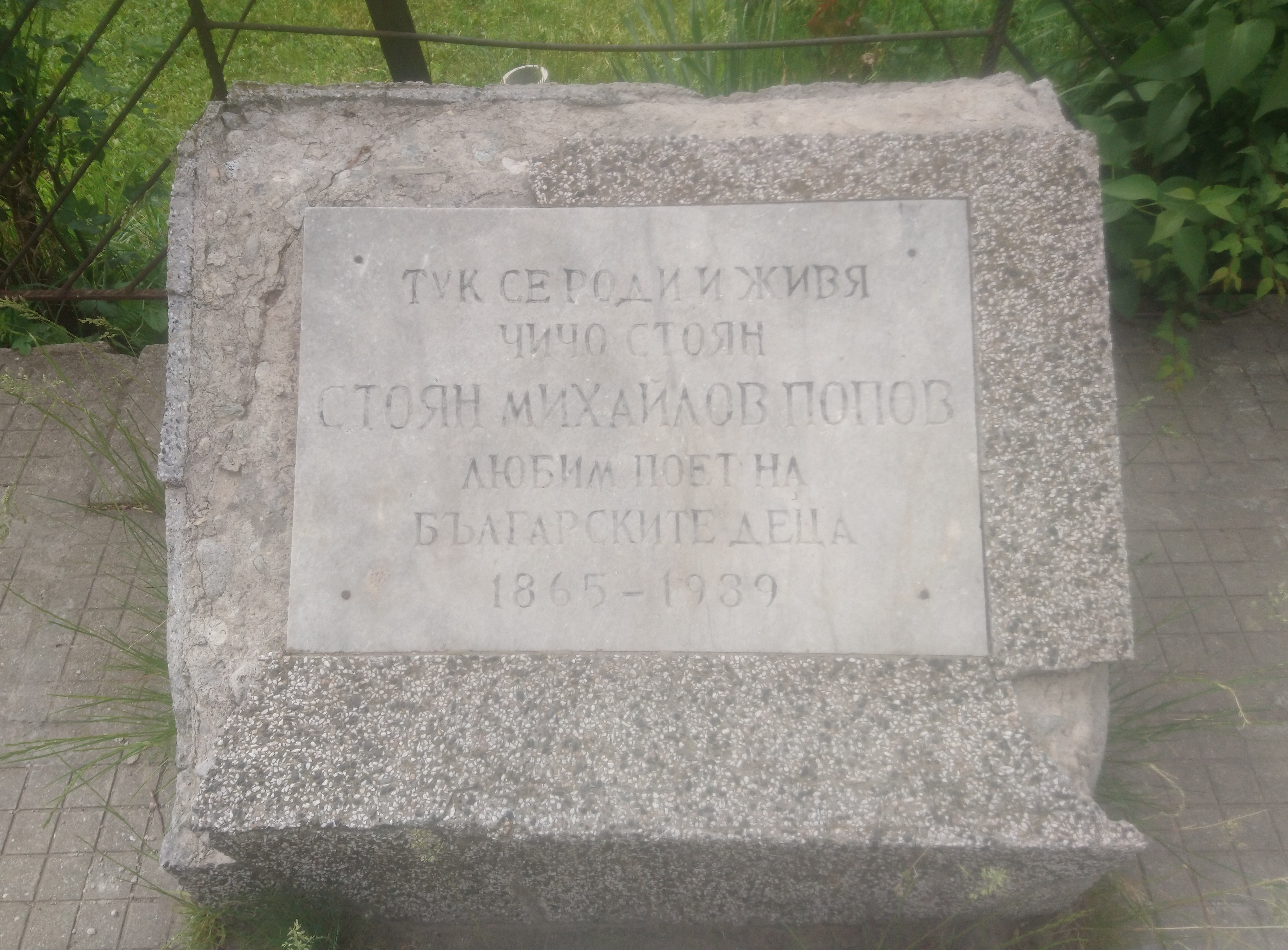 Memorial plaque of the Bulgarian children poet Chicho Stoyan in his native village Divotino, Pernik Province.